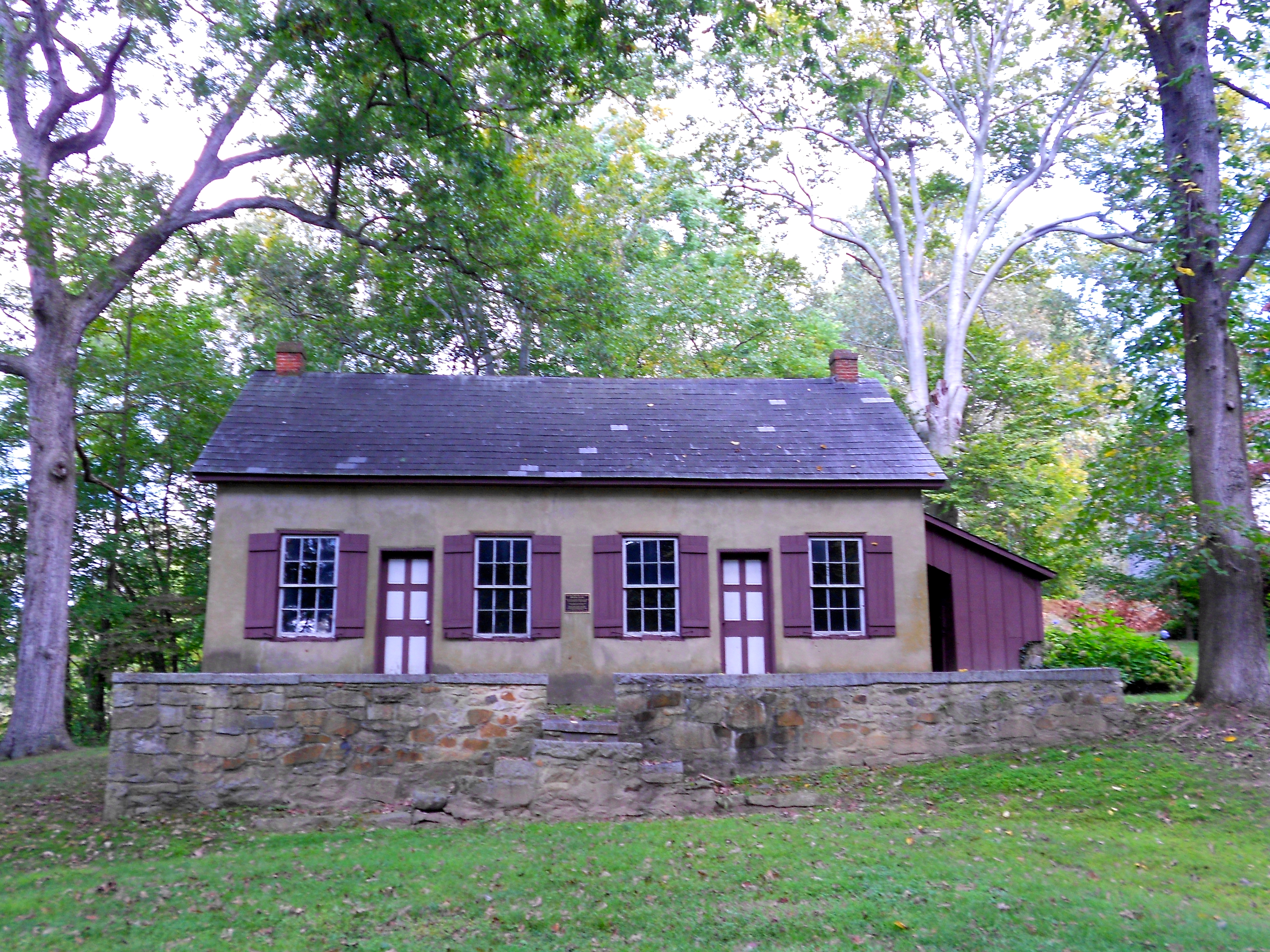 Colora Meetinghouse listed on the NRHP on August 22, 1977. On Corncake Row; North of Colora on Lipencott Rd., Colora, Cecil County, Maryland